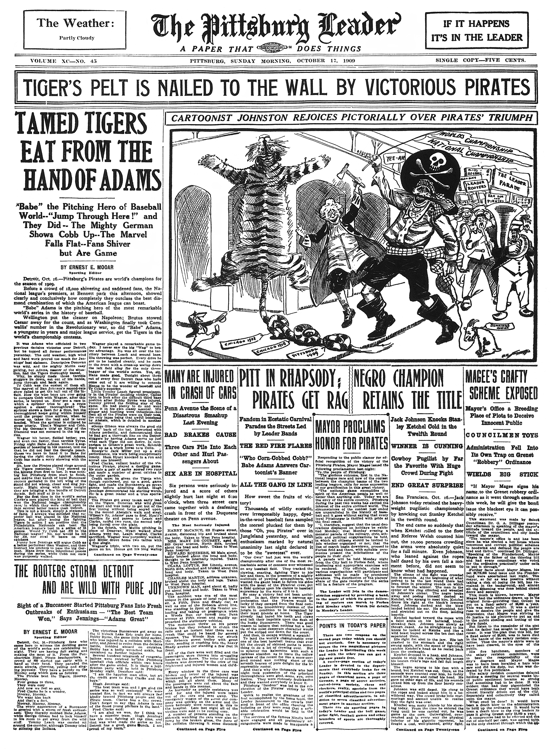 Front page of The Pittsburg(h) Leader newspaper (Pittsburgh, Pennsylvania, United States), 17 October 1909. Digital scan of microfilm.